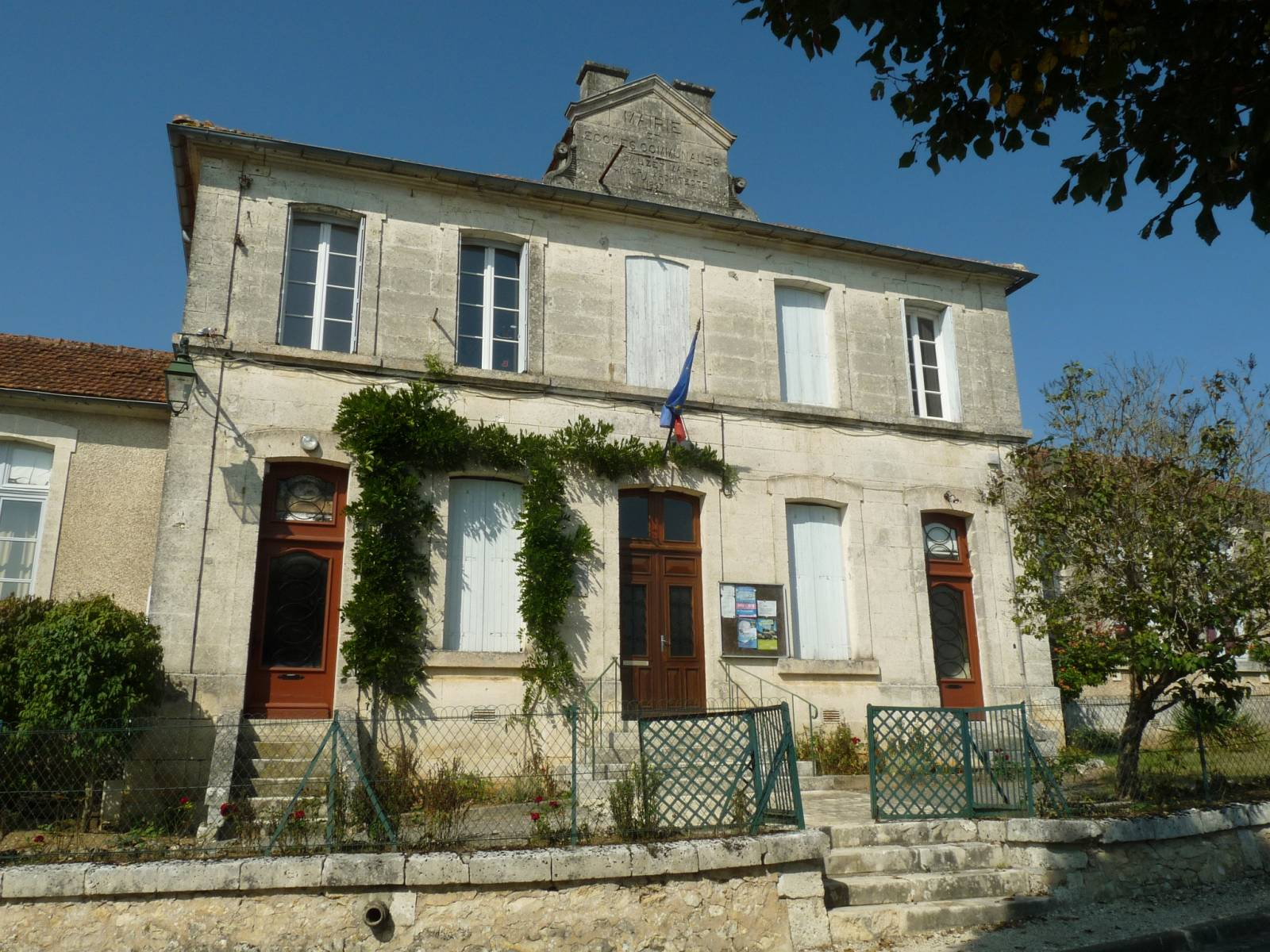 town hall